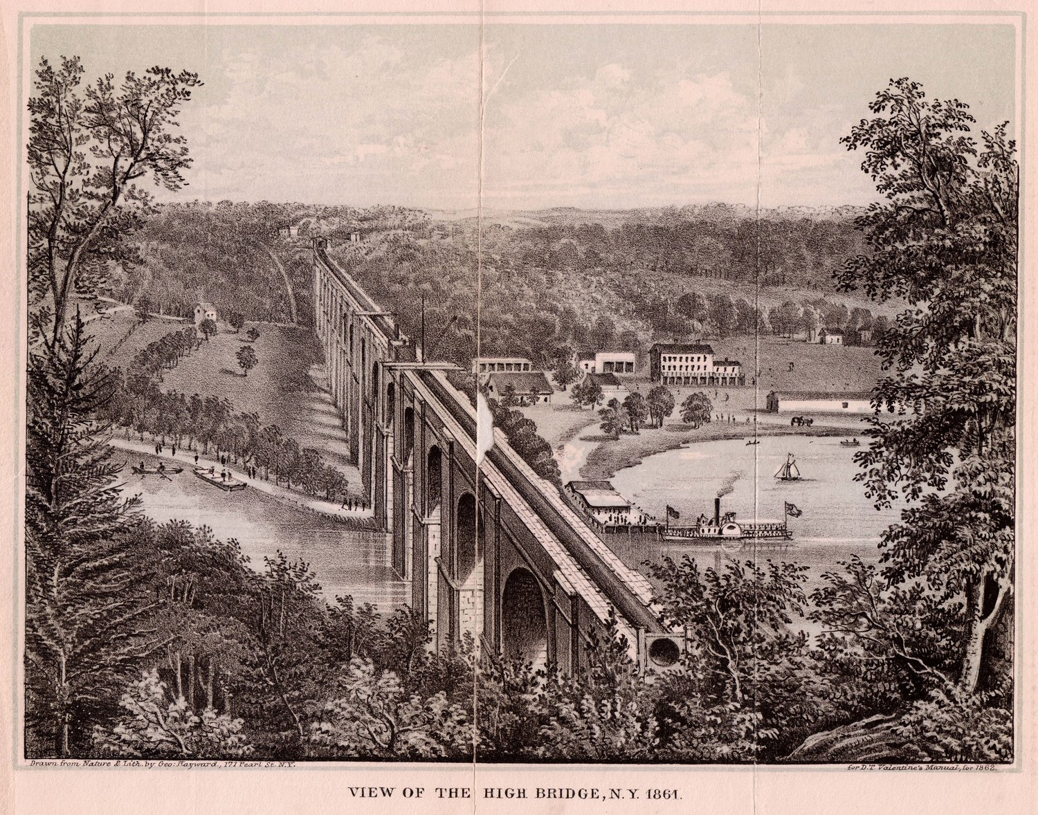 Image caption from High Bridge, part of the Croton Aqueduct. Manual of the Common Council of the City of New York, D.T. Valentine, 1861. Municipal Library Collection.